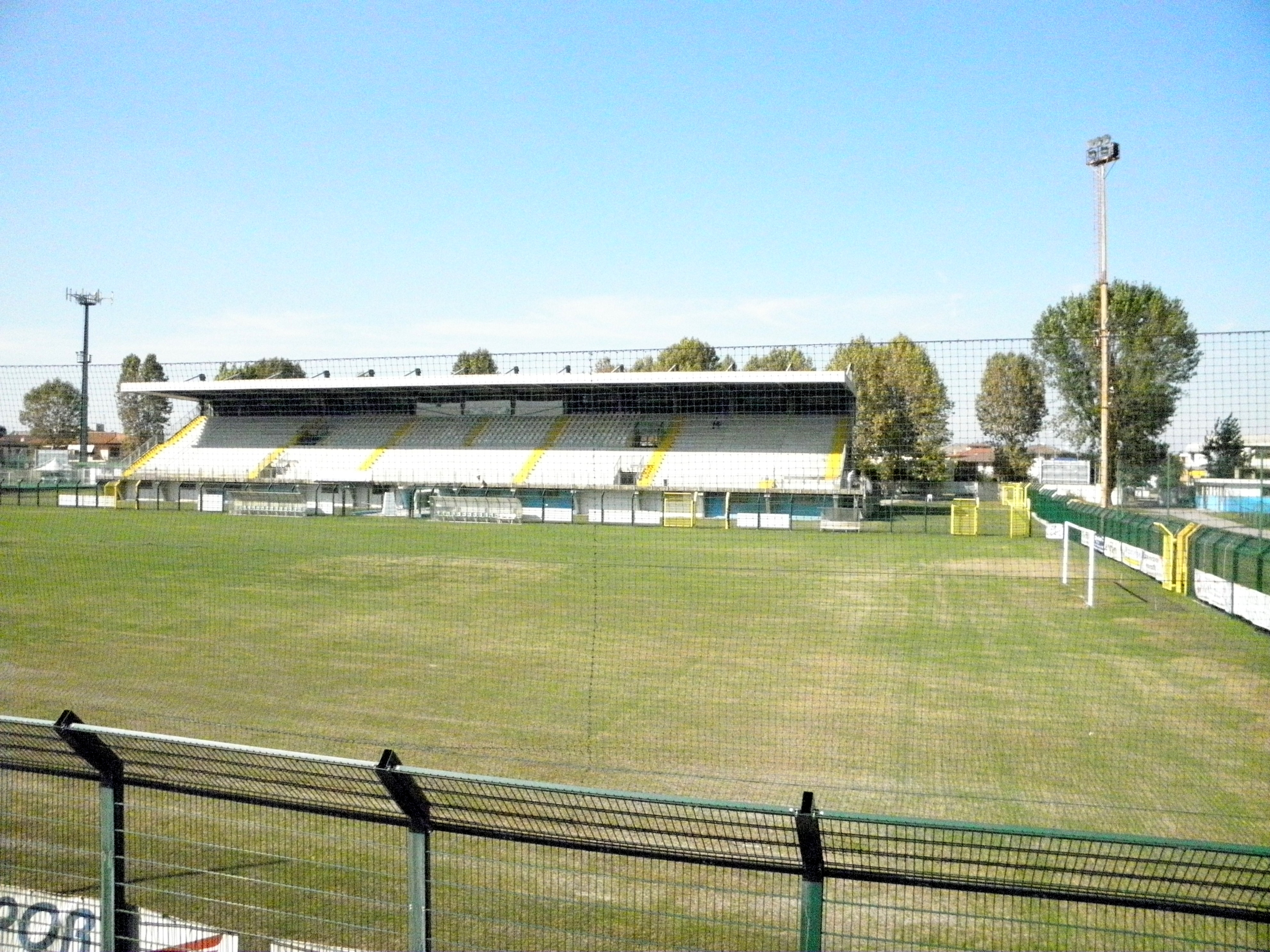 Gabrielli football stadium in Rovigo.